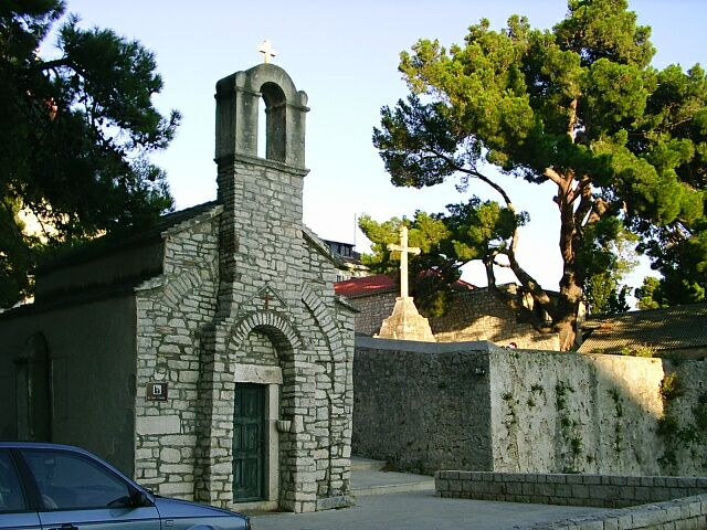 Town of Bol at the Brač island, CroatiaCrkva sv. Ivana Krstitelja, Bol, Z-4773